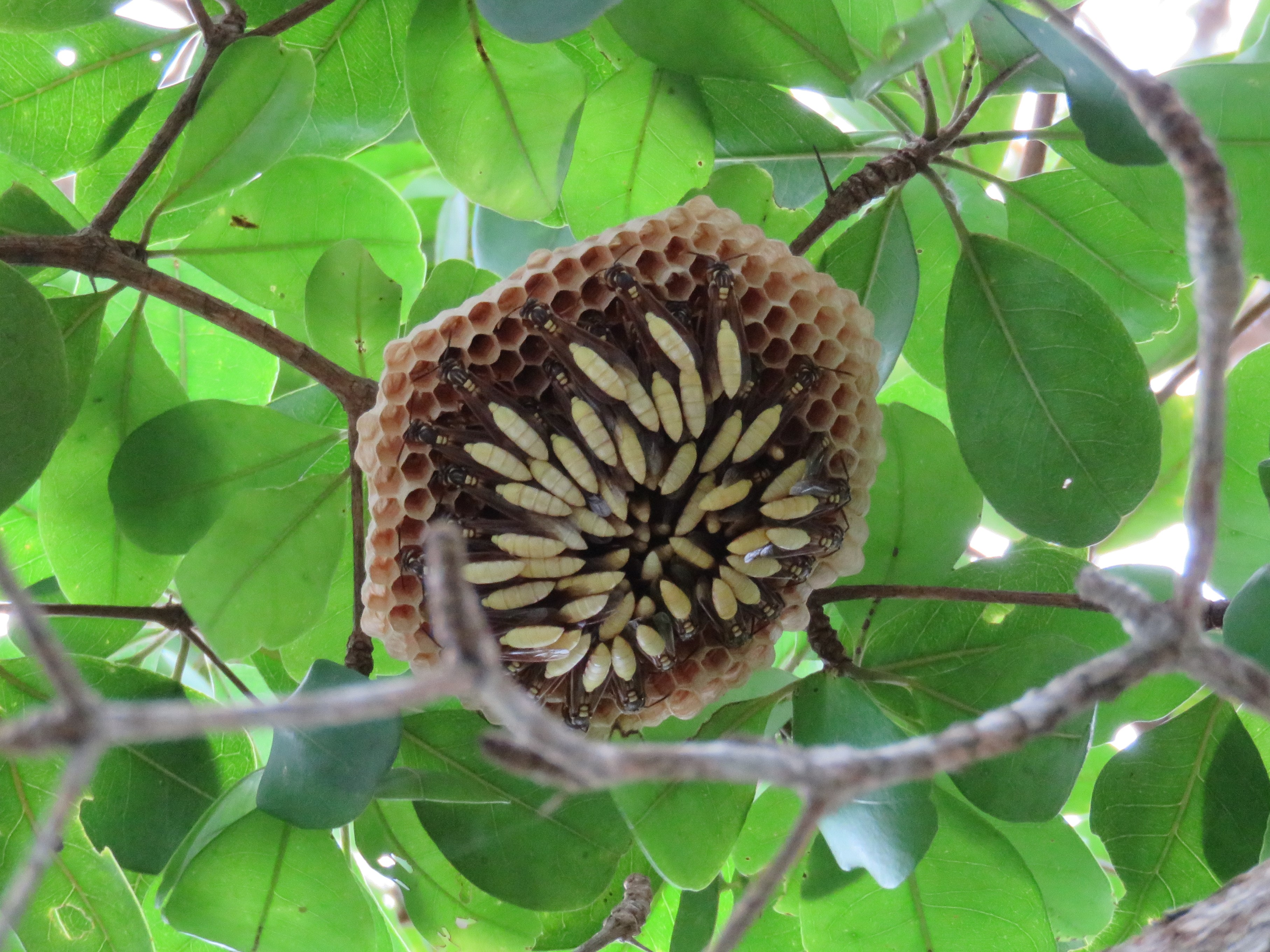 Apoica pallens nesting in a tree in the Bay of Colon, near the entrance to Fort Sherman, Panama. Patrick Kennedy & Pieter Botha, July 2016.